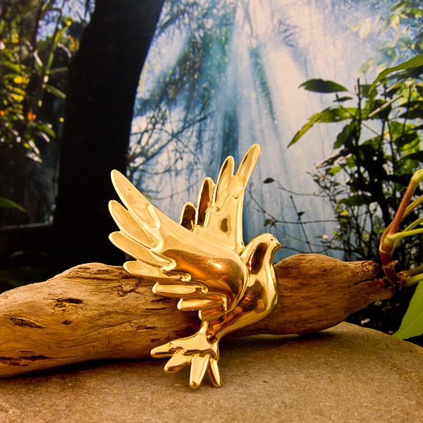 Vintage Tiffany & Co. Paloma Picasso Dove Brooch